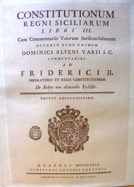 Constitutionum Regni Siciliarum Libri III The first page.....